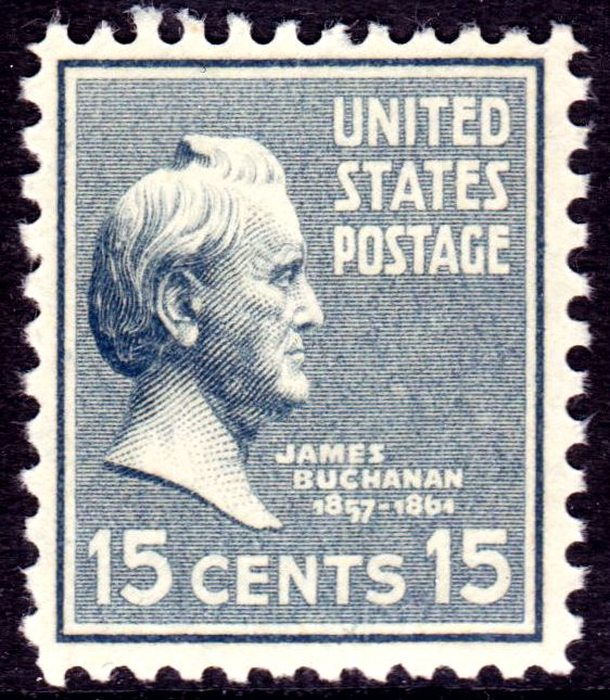 US Postage stamp: James Buchanan, Issue of 1938, 15c